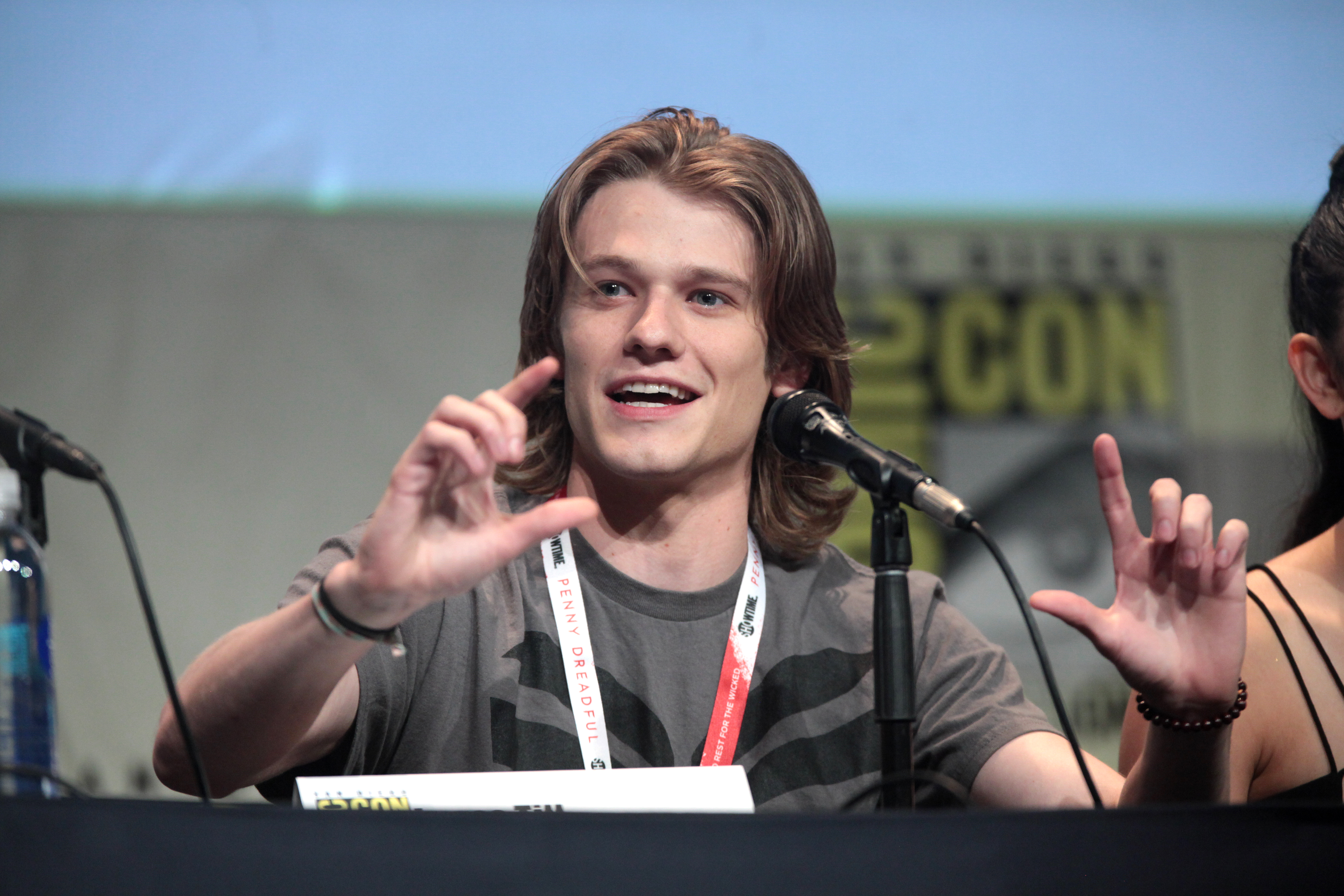 Lucas Till speaking at the 2015 San Diego Comic Con International, for "X-Men: Apocalypse", at the San Diego Convention Center in San Diego, California.